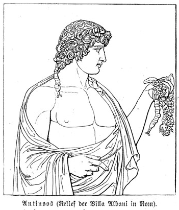 Relief of Antinous as Vertumnus from the Villa Adriana, now in the Villa Albani in Rome. Marconi 20 = Clairmont 25 = Maza 10.